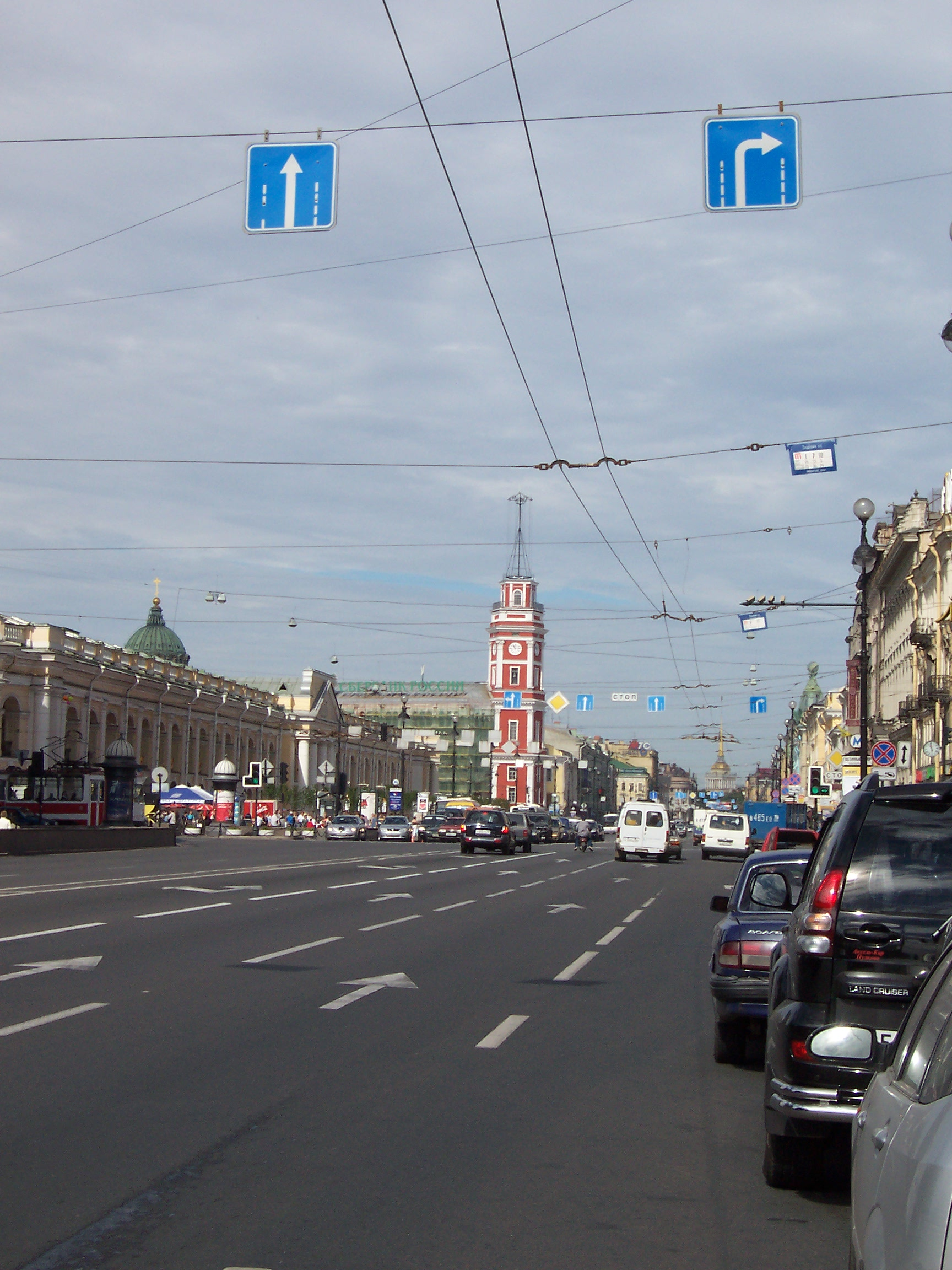 Image of Prospettiva Nevsky at Saint Petersbourg on Juni 2005